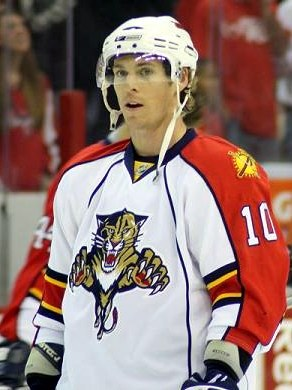 #10 David Booth, Florida Panthers